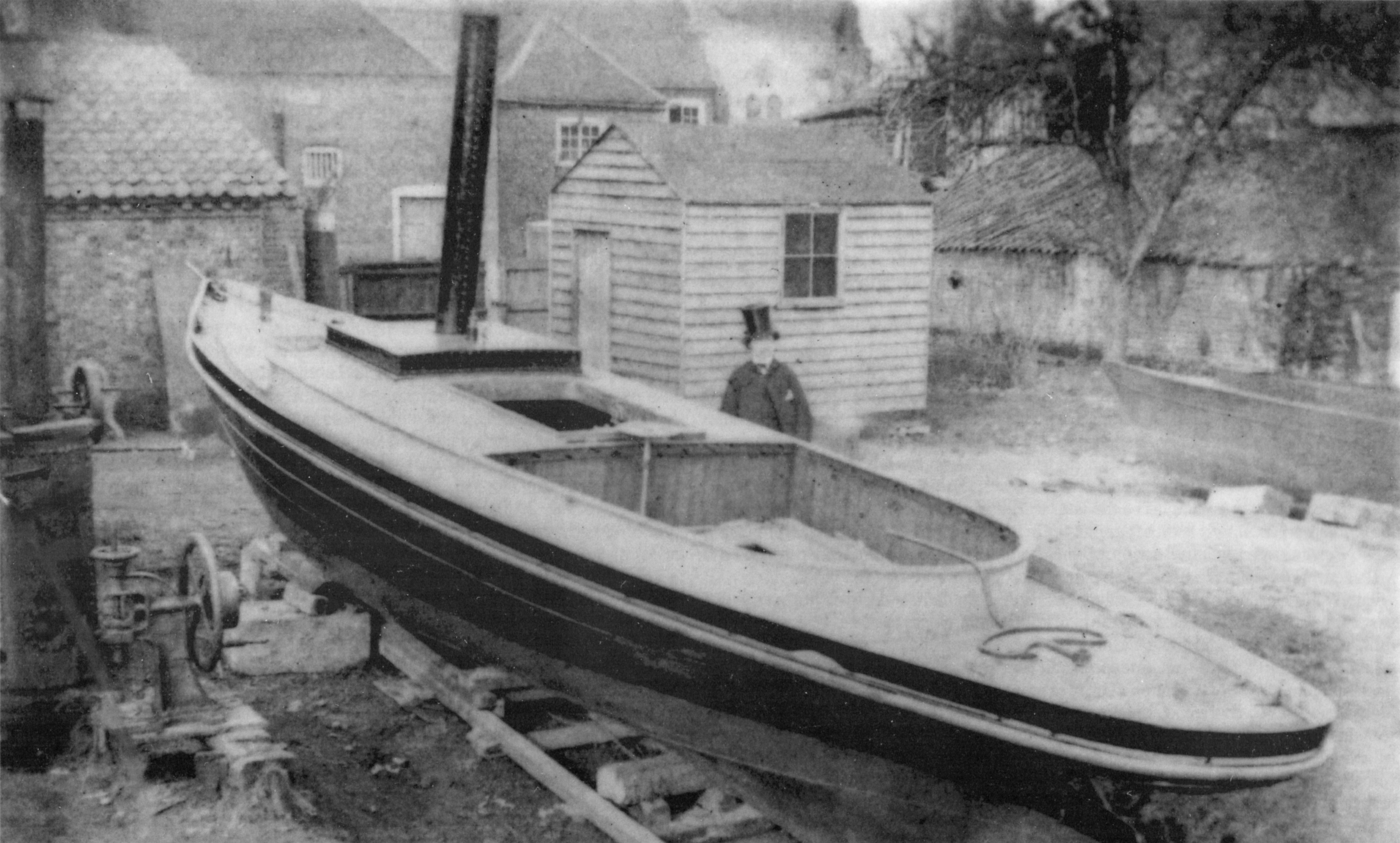 The launch Nautilus was the first vessel built by John I. Thornycroft, begun in 1859, when he was 16, and completed in 1862. Although the John I. Thornycroft Shipbuilding Company was officially founded in 1864, the Nautilus was given yard No. 1 in the archives.